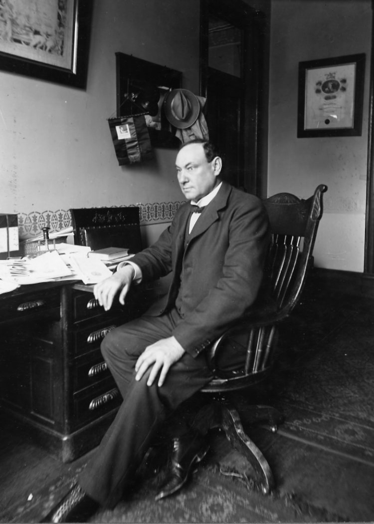 Harvey Washington Wiley (October 30, 1844, Kent, Indiana - June 30, 1930, Washington, D.C.) was a noted chemist involved with the passage of the landmark Pure Food and Drug Act of 1906. Wiley was offered the position of Chief Chemist in the United States Department of Agriculture by George Loring, the Commissioner of Agriculture, in 1882. Wiley brought with him to Washington a practical knowledge of agriculture, a sympathetic approach to the problems of agricultural industry and an untapped talent for public relations. After assisting Congress in their earliest questions regarding the safety of the chemical preservatives then being employed in foods. These famous "poison squad" studies drew national attention to the need for a federal food and drug law. Wiley soon became a crusader and coalition builder in support of national food and drug regulation which earned him the title of "Father of the Pure Food and Drugs Act" when it became law in 1906. In 1912, Wiley resigned and took over the laboratories of Good Housekeeping magazine where he established the Good Housekeeping Seal of Approval and worked tirelessly on behalf of the consuming public. Ca. 1900